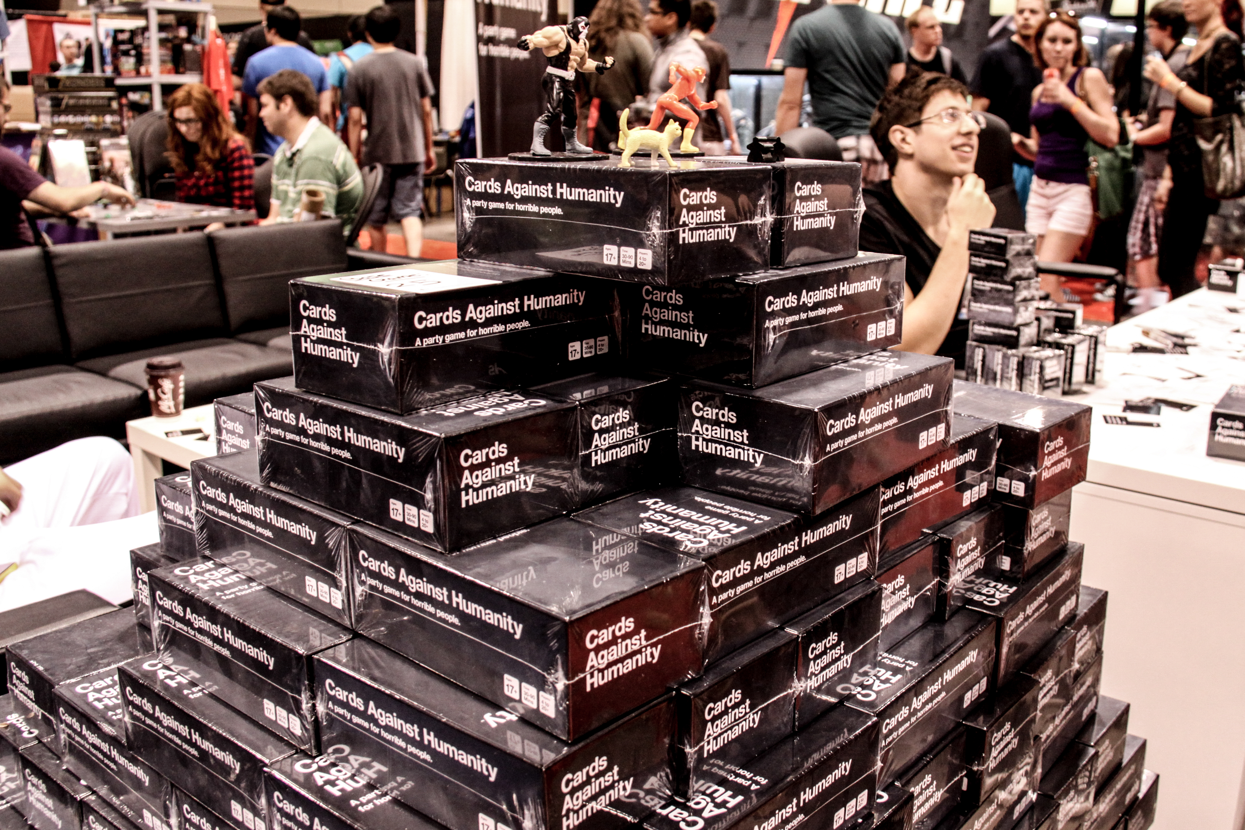 A stack of Cards Against Humanity boxes at Fan Expo Canada 2013.